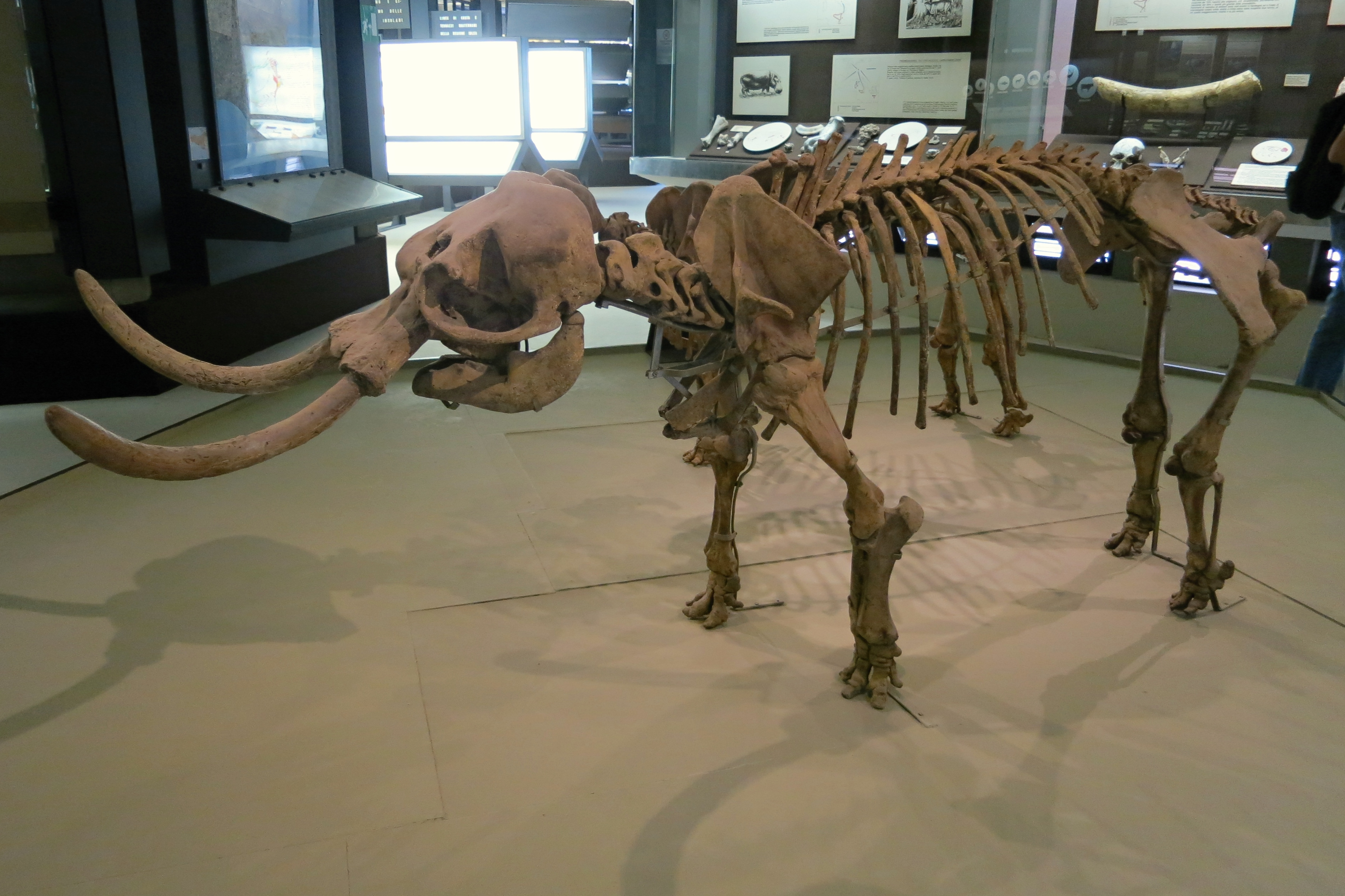 Sicilian elephant. Skeletons of Elephas Falconeri (Palaeoloxodon). Found in Grotta Spinagallo, Syracuse, Sicily. Archaeological Museum of Syracuse.